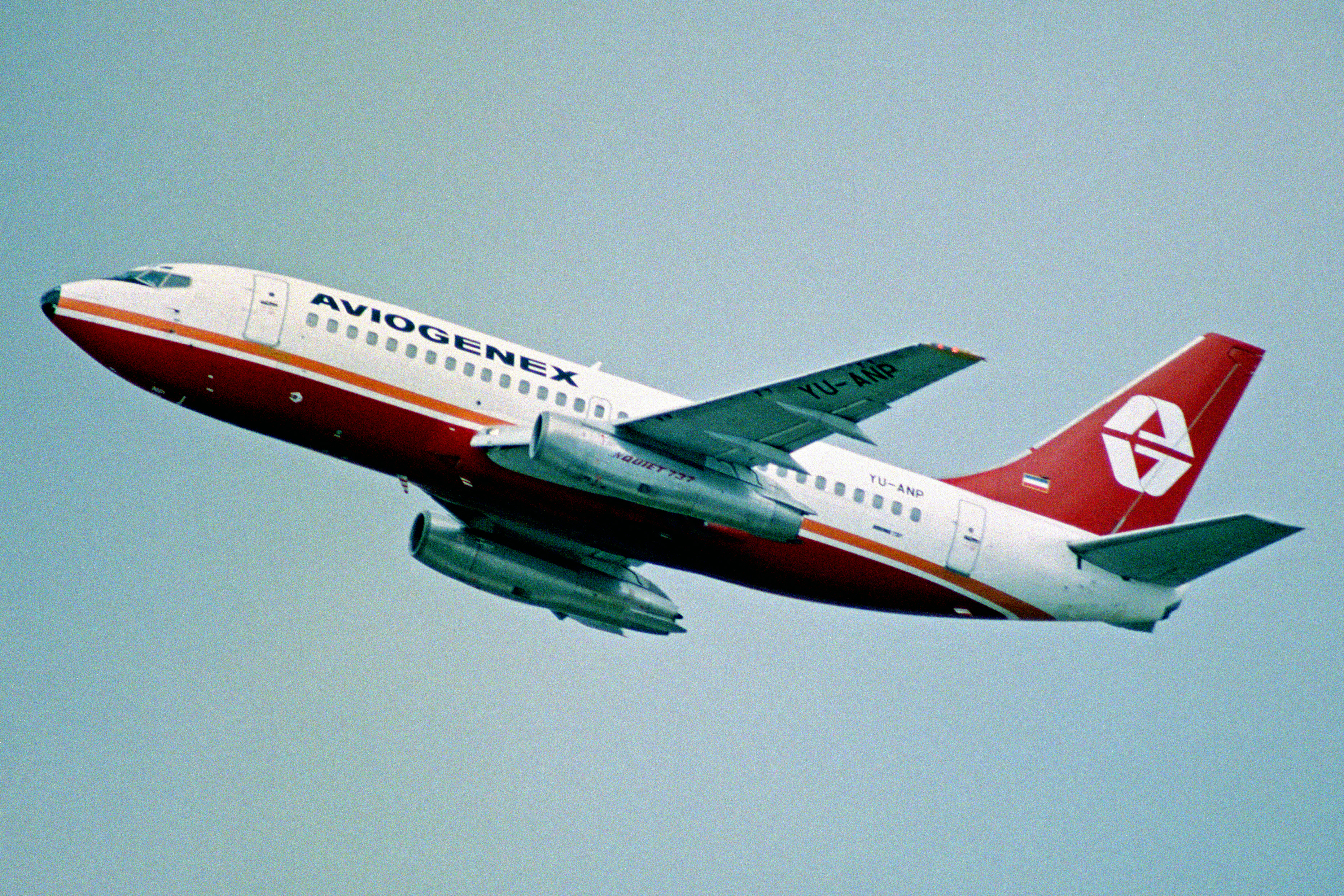 Aviogenex Boeing 737-2K3 (YU-ANP) at Zurich Airport